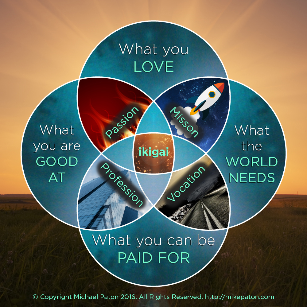 Ikigai Diagram Modern Re-make